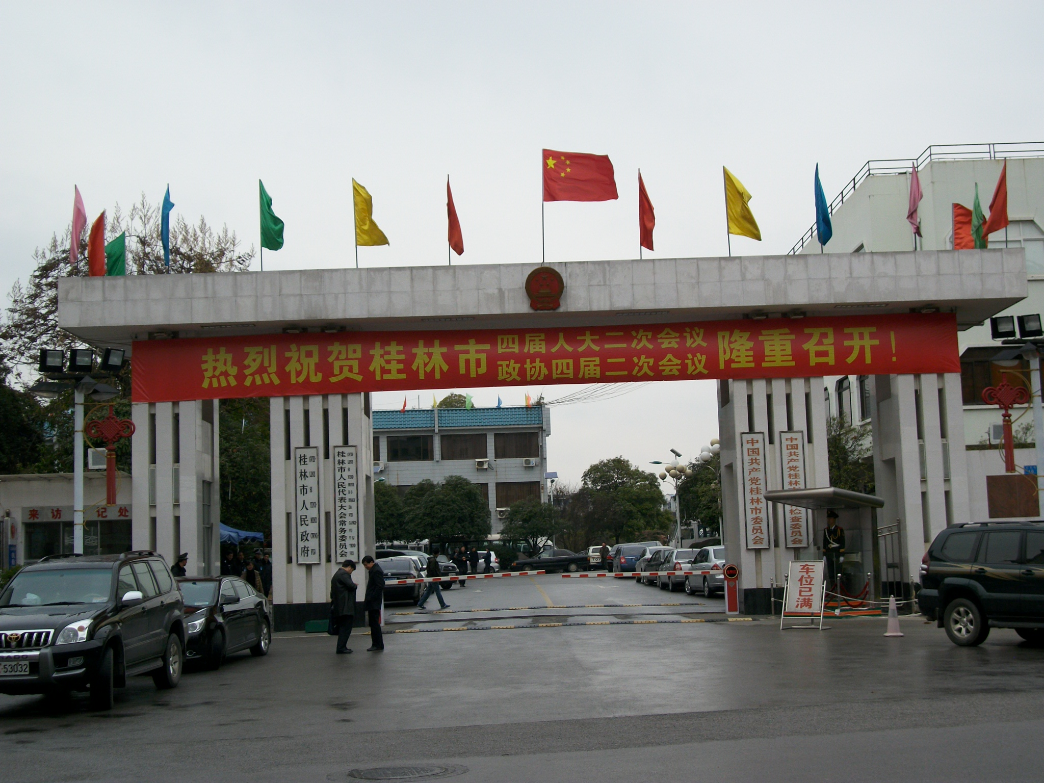 Guilin Government.